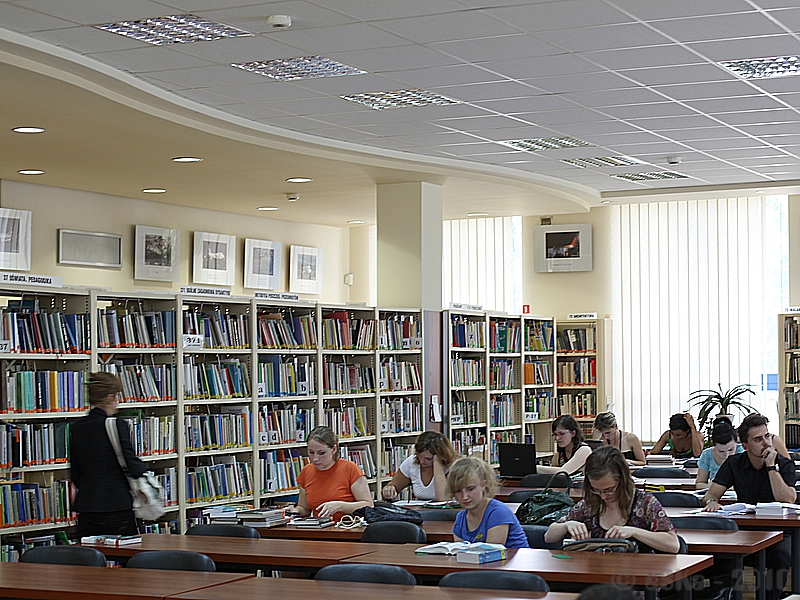 Main reading room of Library Pedagogical University in Cracow